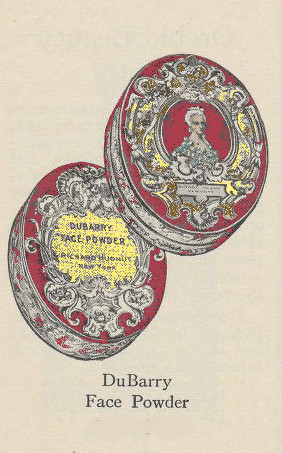 Richard Hudnut product